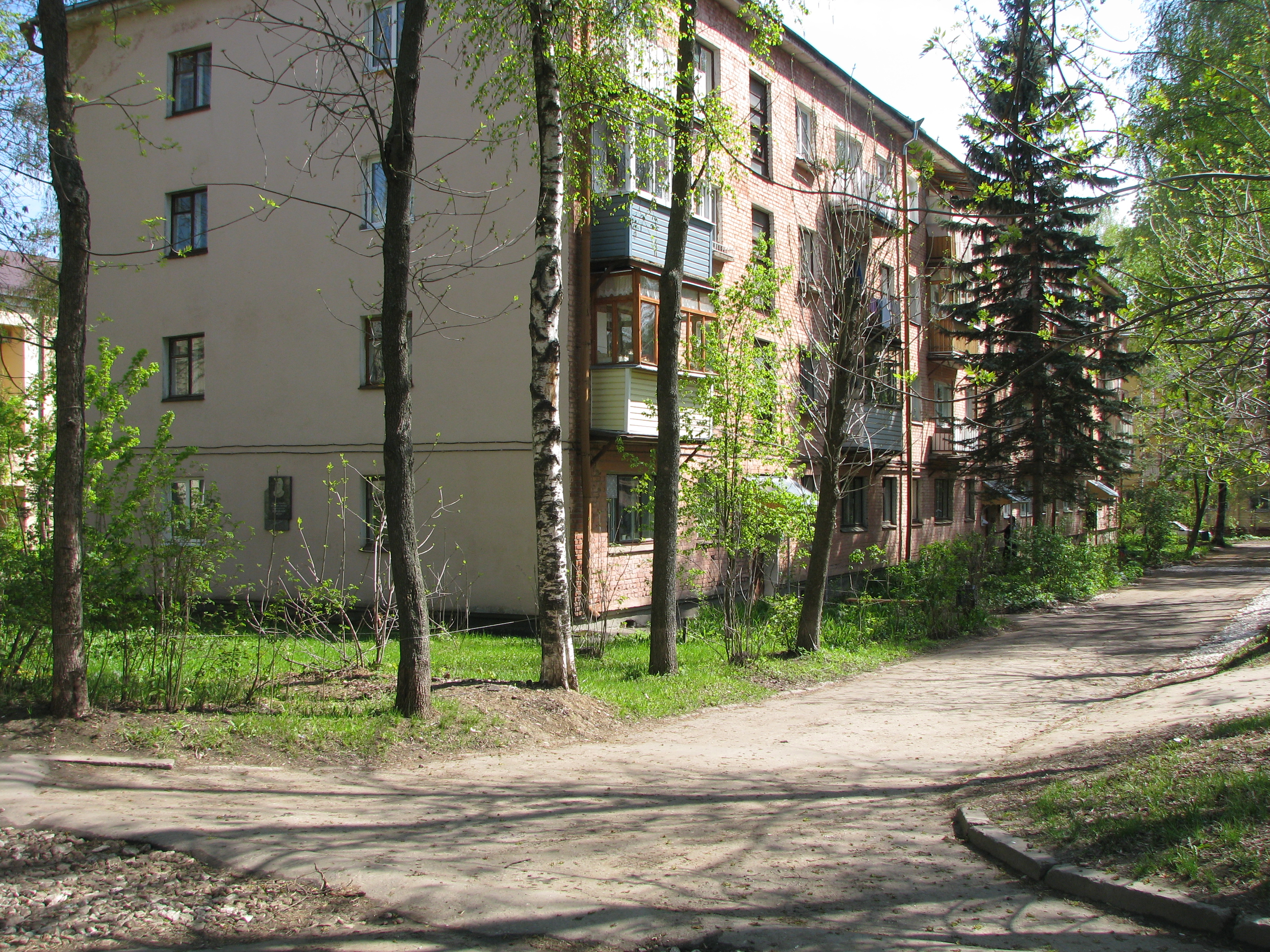 1 of Fejgin Str at Vladimir where VV Shulgin lived in 1960-1976